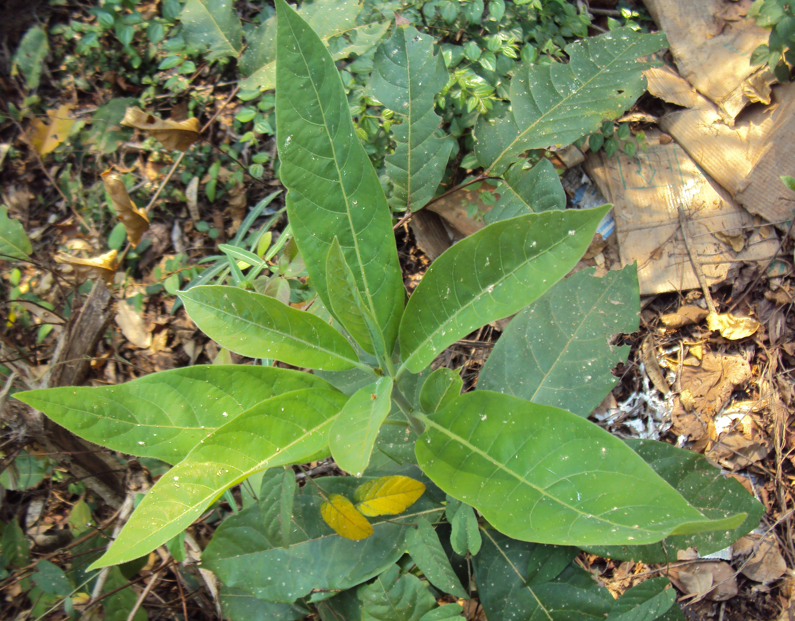 Croton persimilis